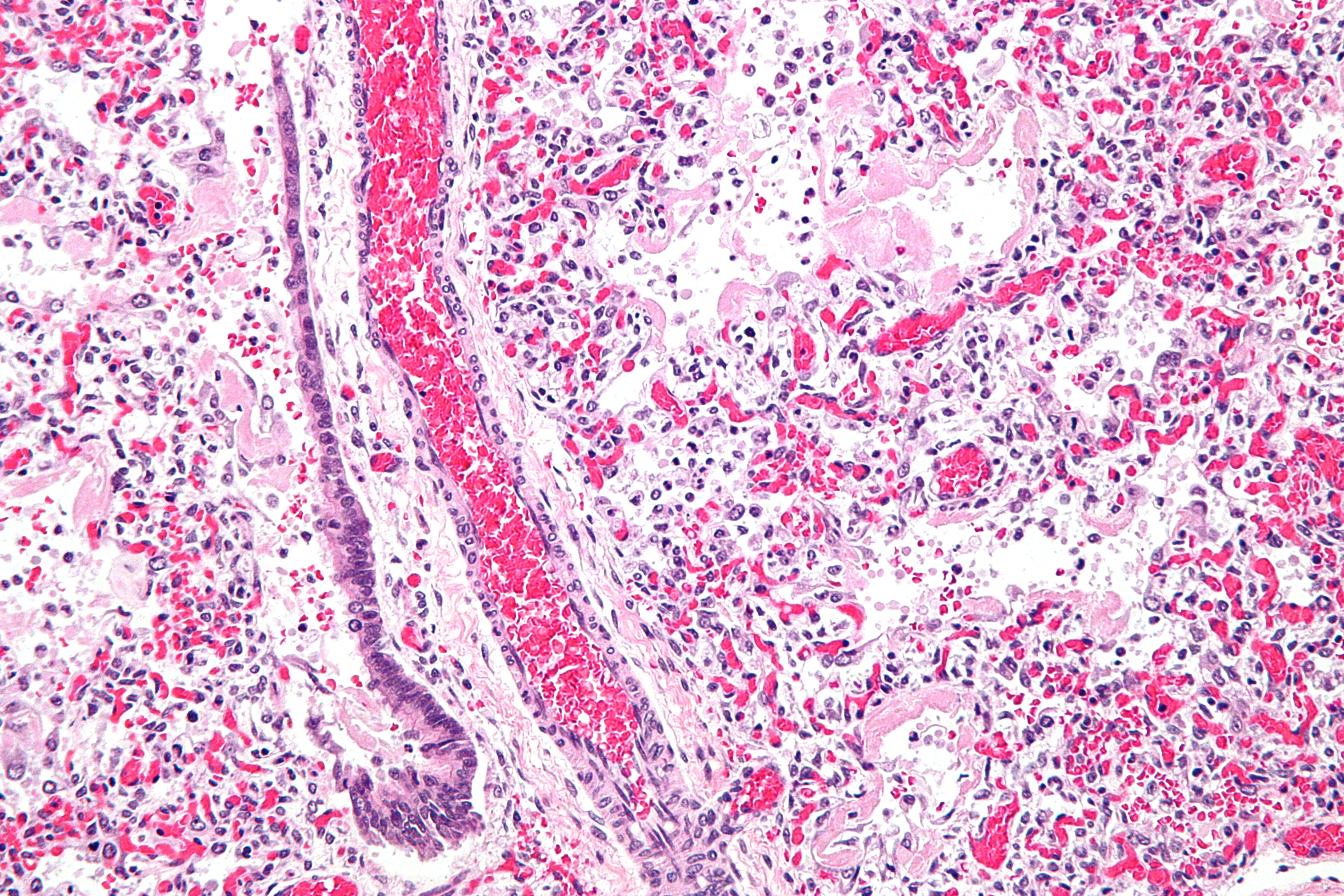 High magnification micrograph of hyaline membranes, as seen in diffuse alveolar damage (DAD), the histologic correlate of adult respiratory distress syndrome (ARDS), transfusion related acute lung injury (TRALI), acute interstitial pneumonia (AIP). Related images Low mag. Intermed. mag. High mag. Very high mag.